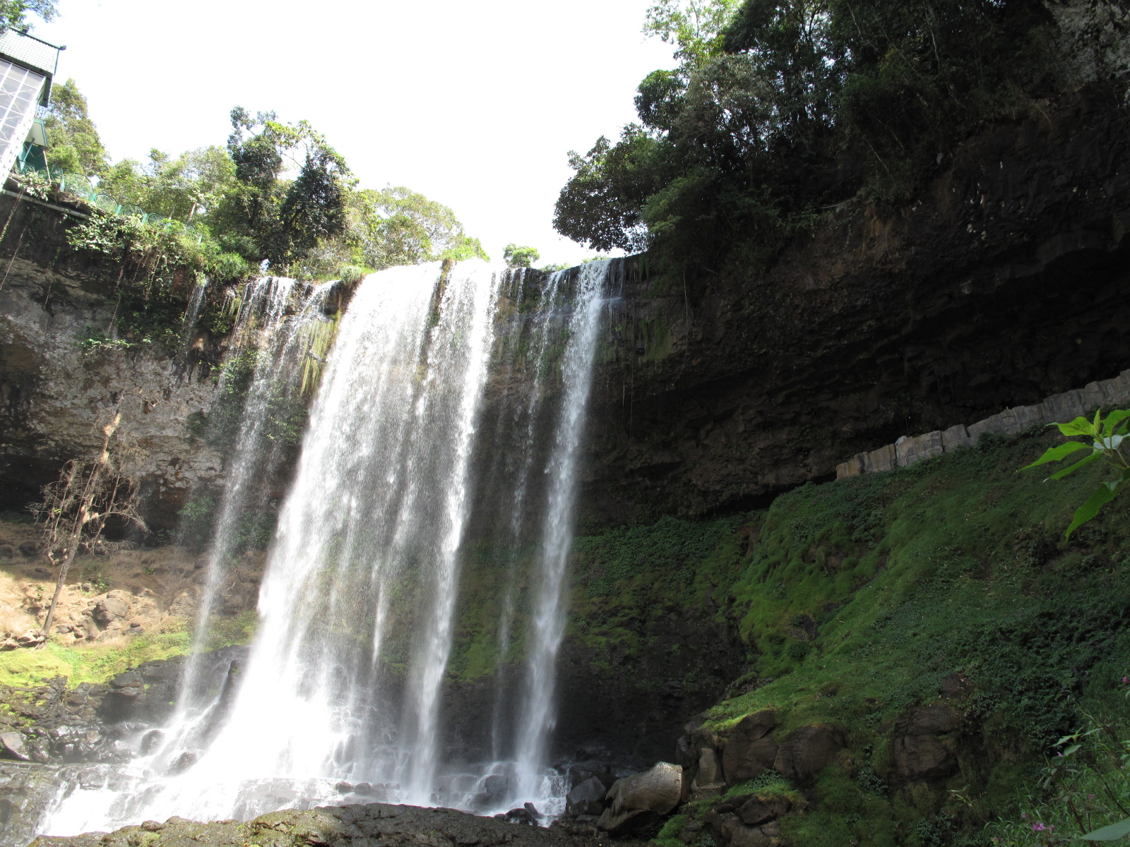 DamBri Waterfall is about 18km from Bao Loc Town. The waterfall is about 60m high. Shot with Canon PS G10.